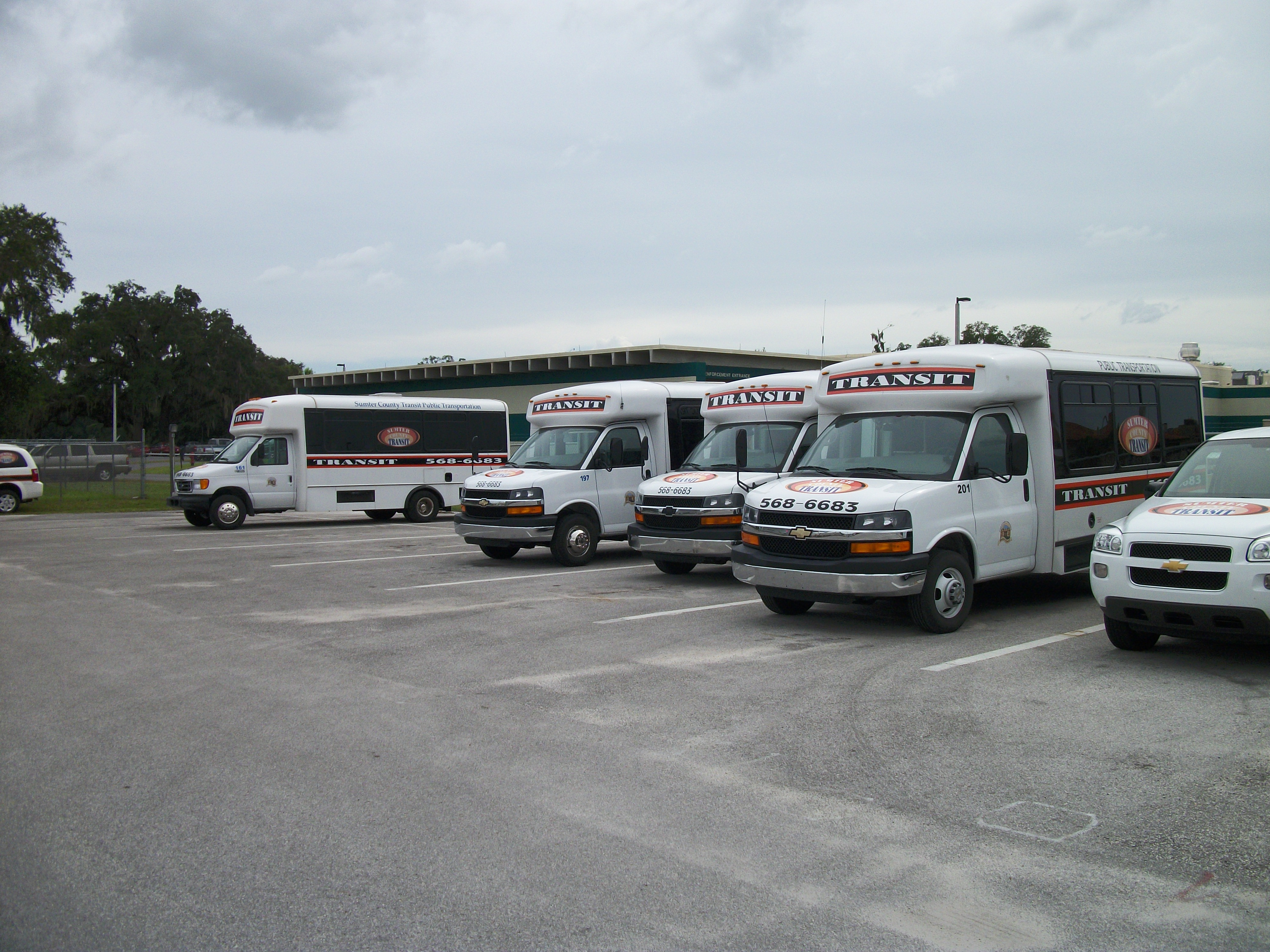 Various buses of the Sumter County Transit yard in Bushnell, Florida. They include some Chevrolet Express G-3500's a Chevrolet Venture Paratransit bus , and a 2003-2007 Ford E-450. A 2008 or later Dodge Caravan Paratransit van is also in the background, but I'll have to capture it on another pic. Also, this is surrounded by the Sumter County Detention Center, and I was hesitant to take some any pictures, because I assumed that prisoners might be working on the buses, and I'd be arrested for taking pictures of the jail.